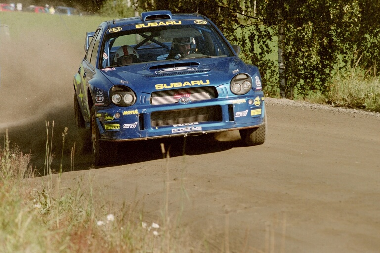 World Rally Championship WRC Rally Finland 2001